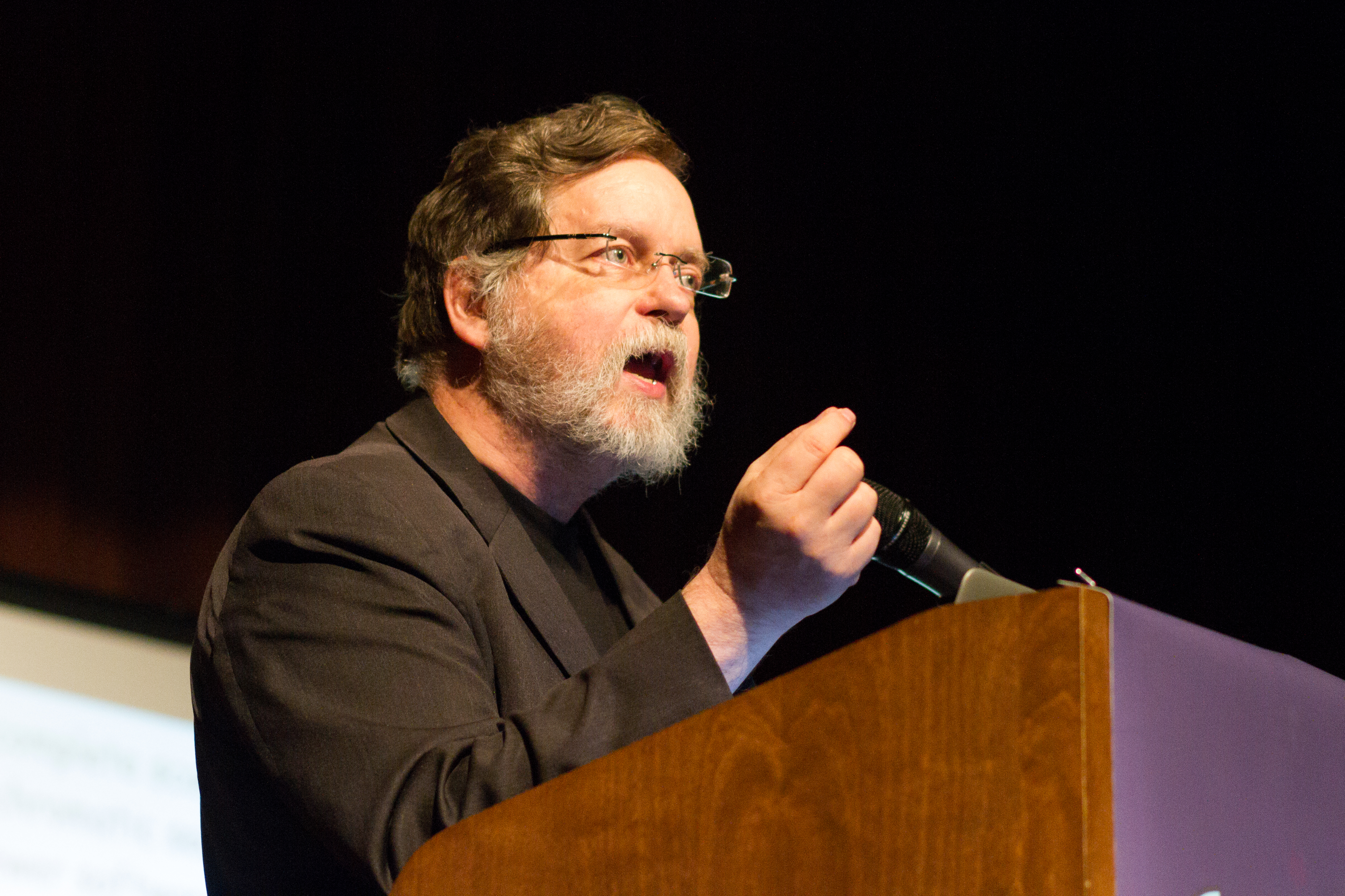 PZ Myers speaking at Skepticon 7